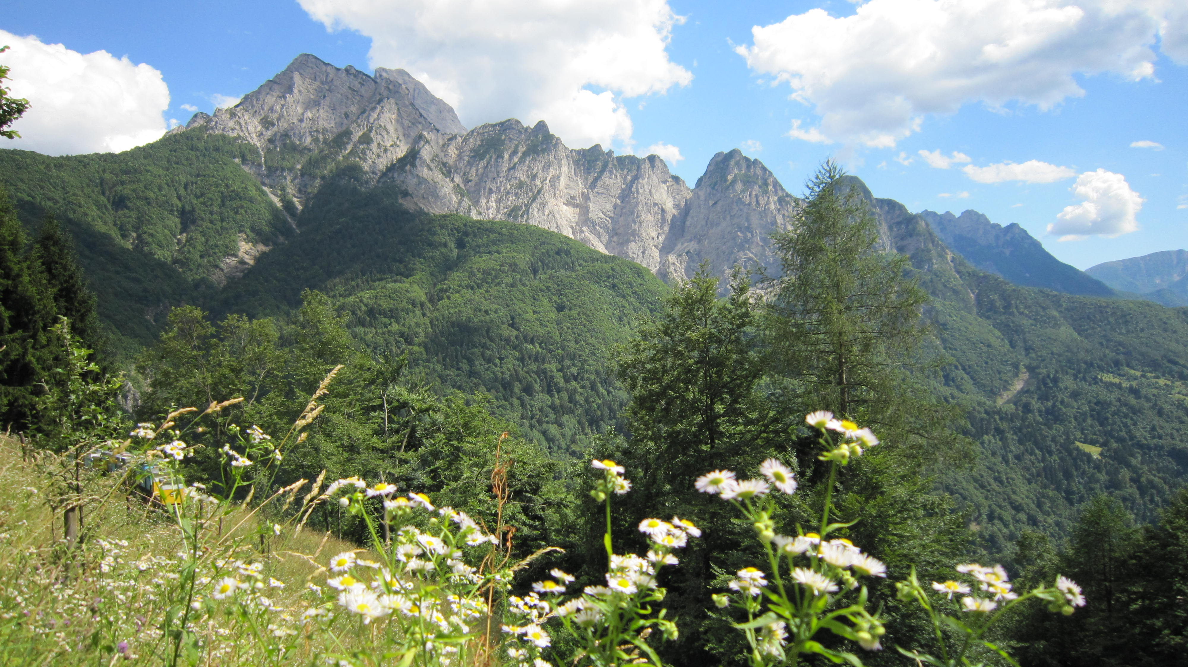 paularo monte castoia